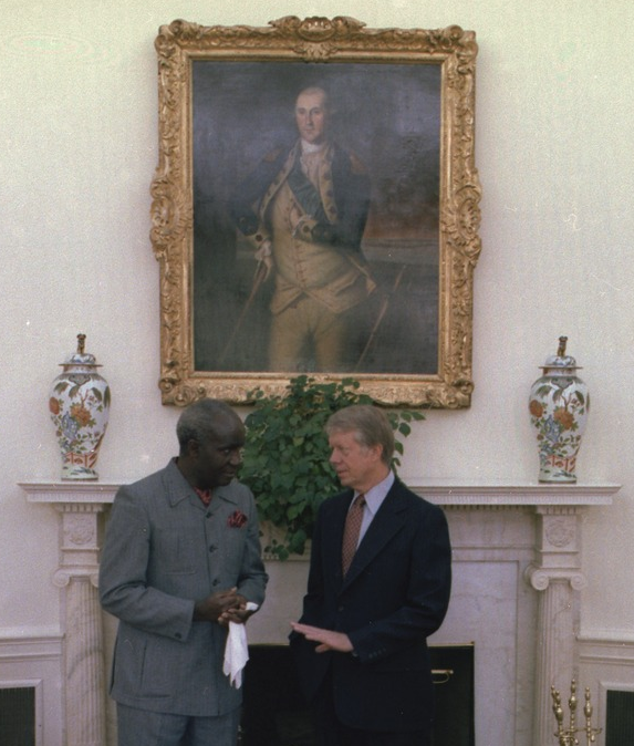 Jimmy Carter with Kenneth Kaunda of Zambia